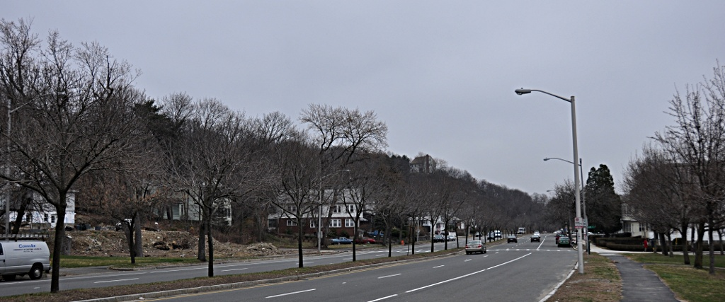 A photograph of the Fellsway West in Medford, Massachusetts, part of the historic Fells Connector Parkways.